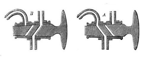 Drawing of three-way stopcock